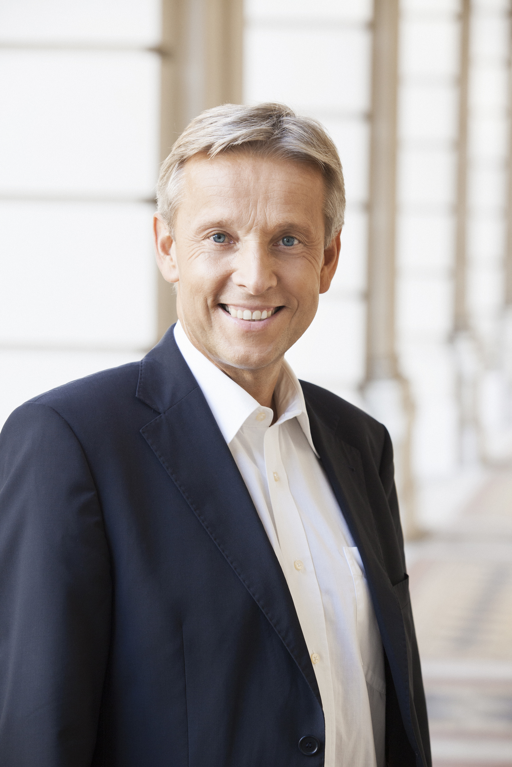 State Secretary Reinhold Lopatka (2012)